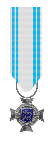 Cross for the Eleven Cities Skatetour as worn by H.M. Willem-Alexander in 2013